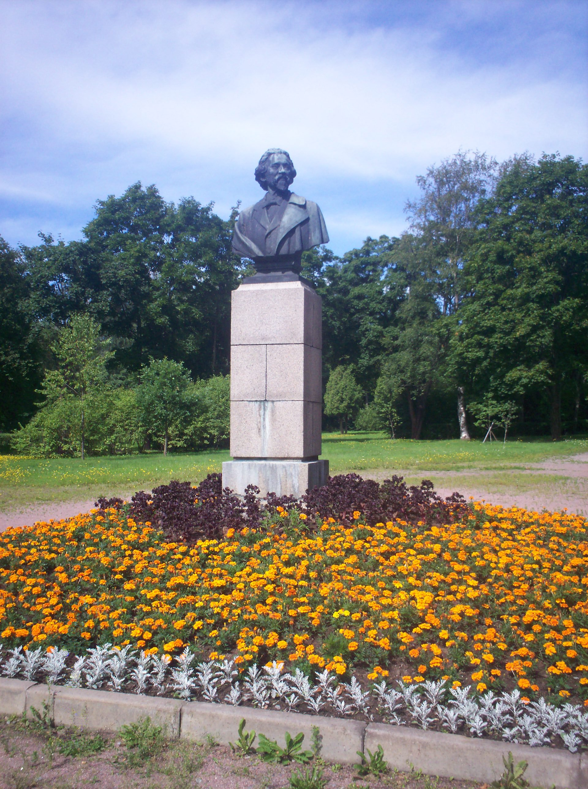 Repin's memorial in Repino